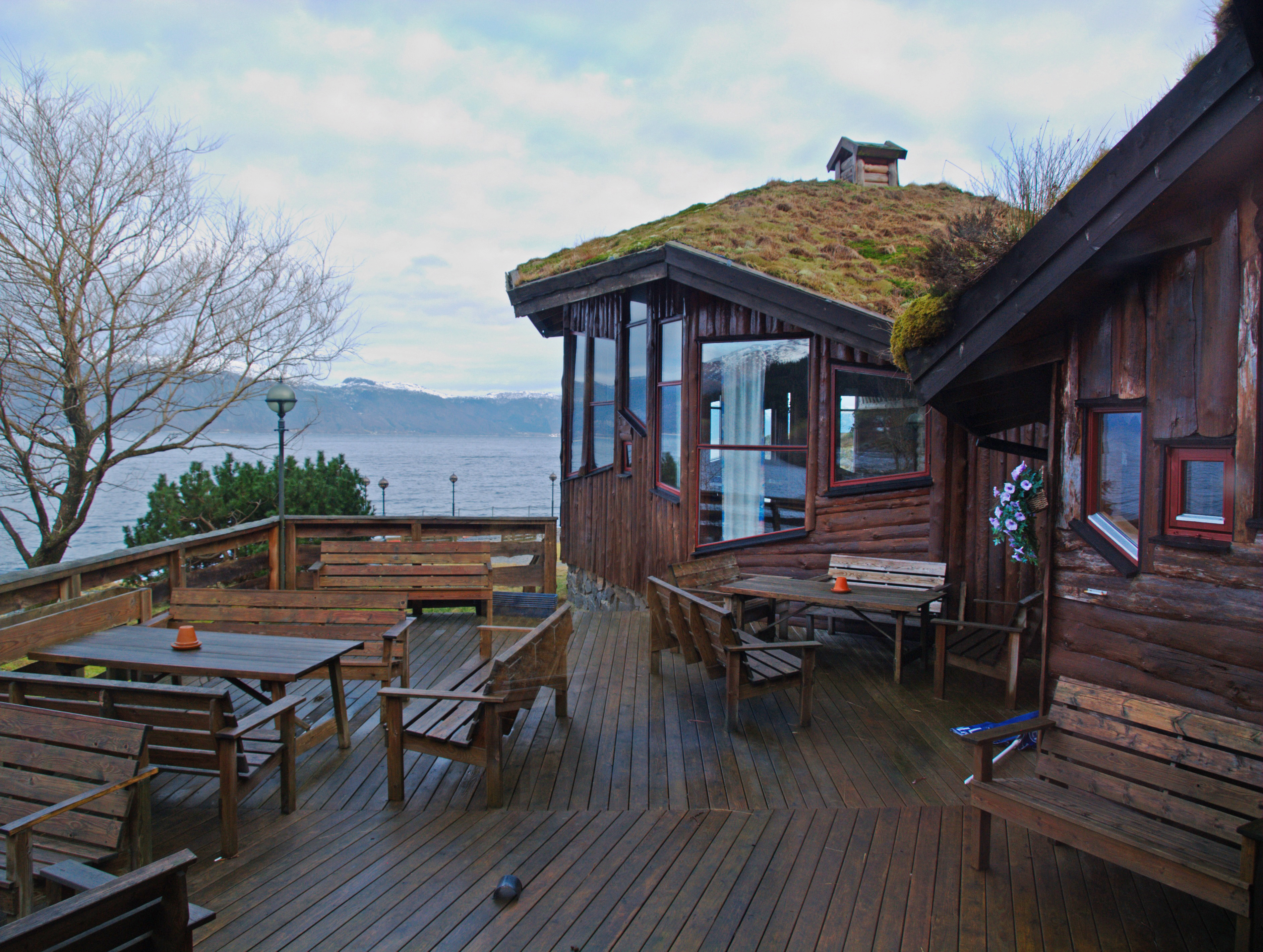 Brekkestranda Fjordhotell in Gulen municipality, Norway.